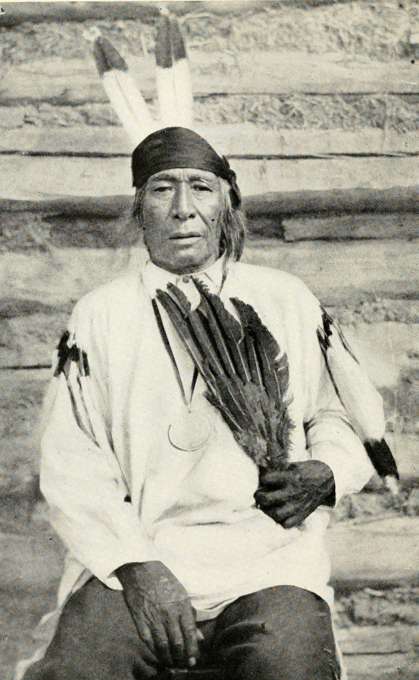 Strikes Two (1844-?) served as Indian scout in the U.S. Army in the 1870s